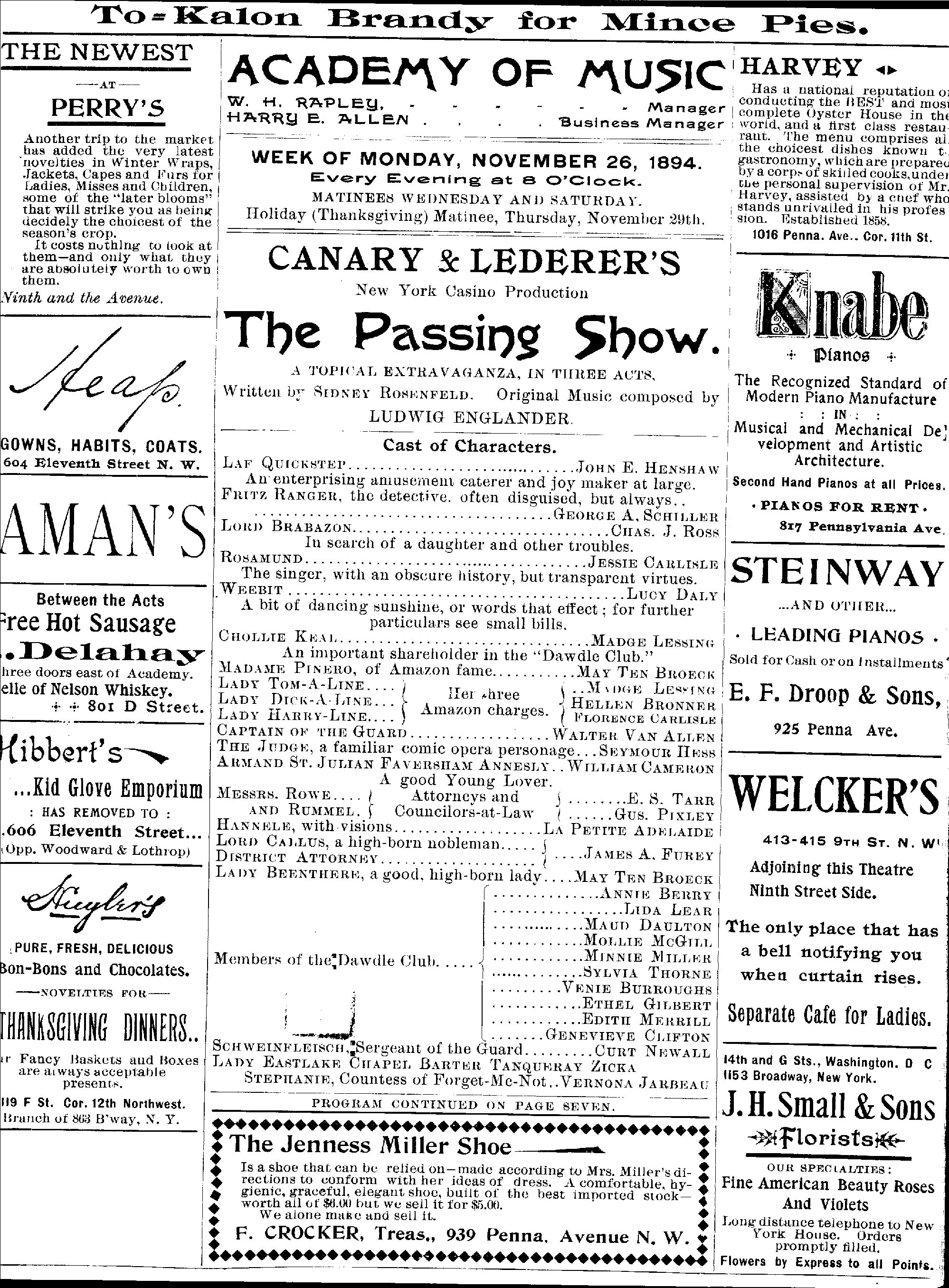 Page five of the playbill for the Washington, D. C., presentation of The Passing Show (1894), the first of two pages listing the program and credits